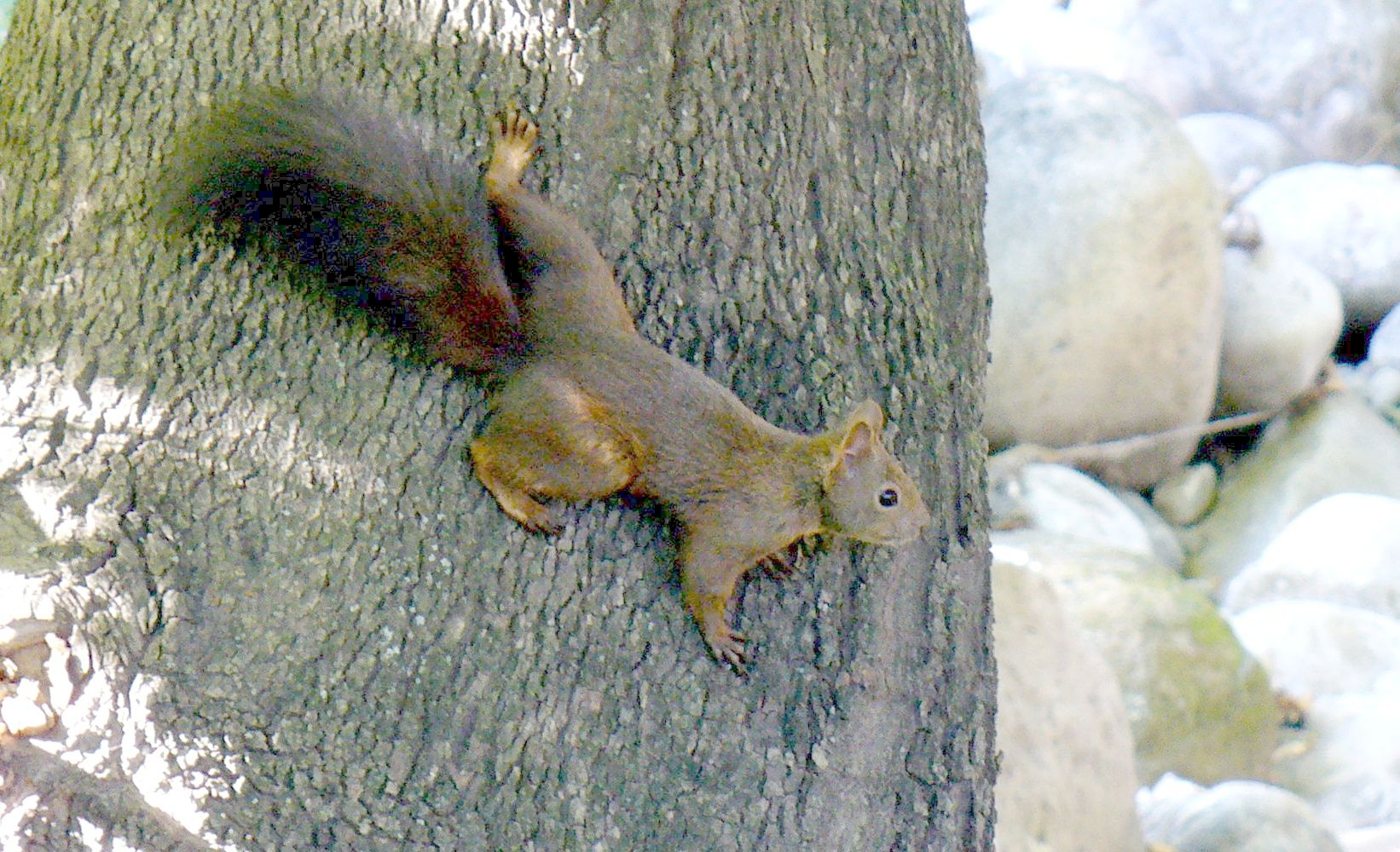 Squirrel on a tree in the park of Sandanski, south Bulgaria